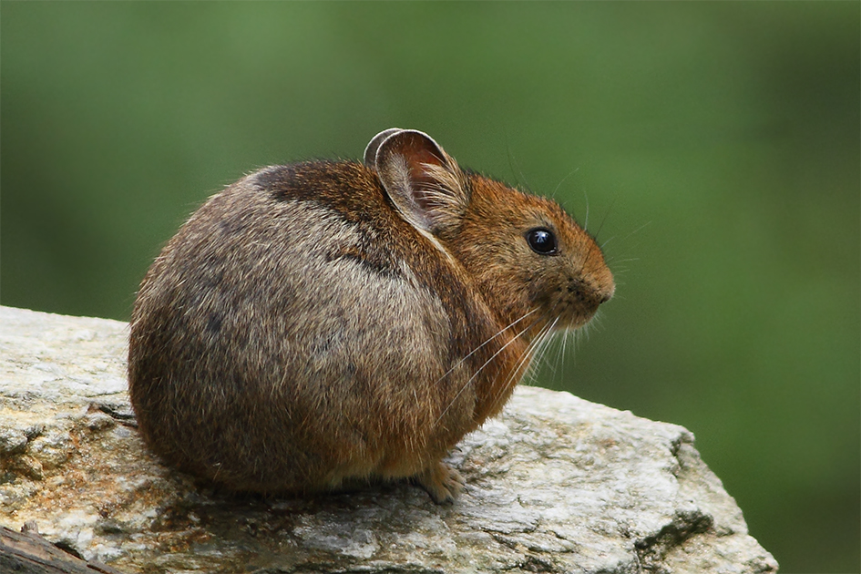 Ochotona roylei from Tungnath, Rudraprayag district, Uttarkhand state, India.